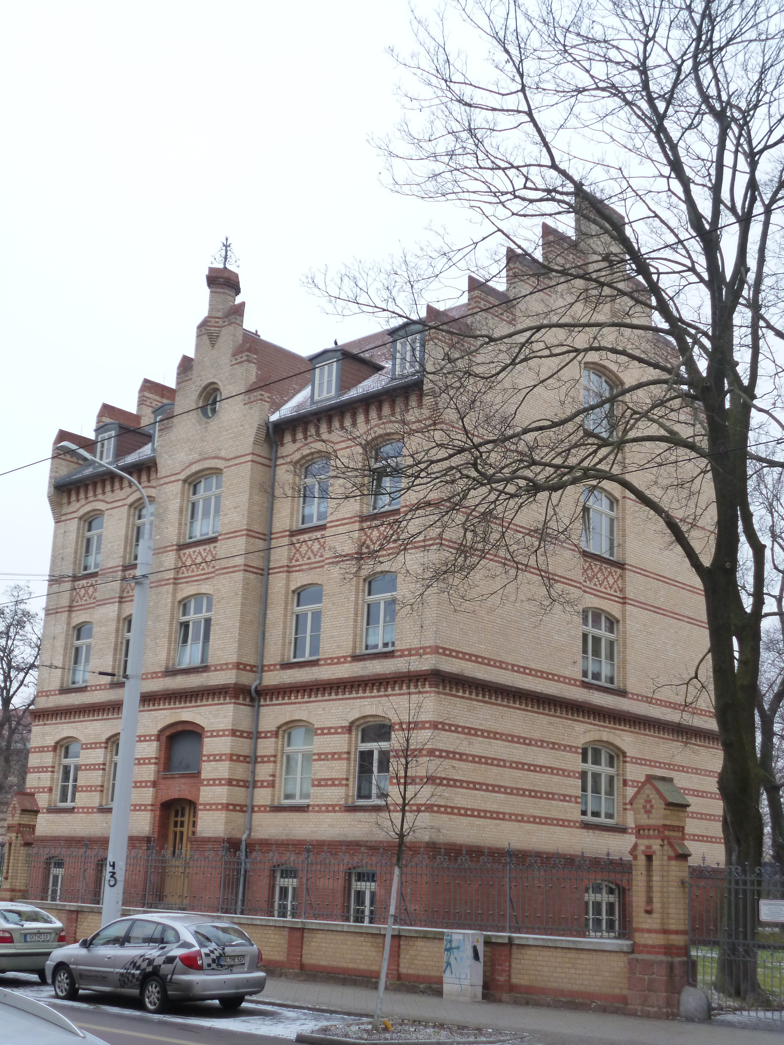 Street Beesener Straße No. 16, former asylum for children, today home for disabled people, Paul-Riebeck-Stiftung, Halle (Saale)